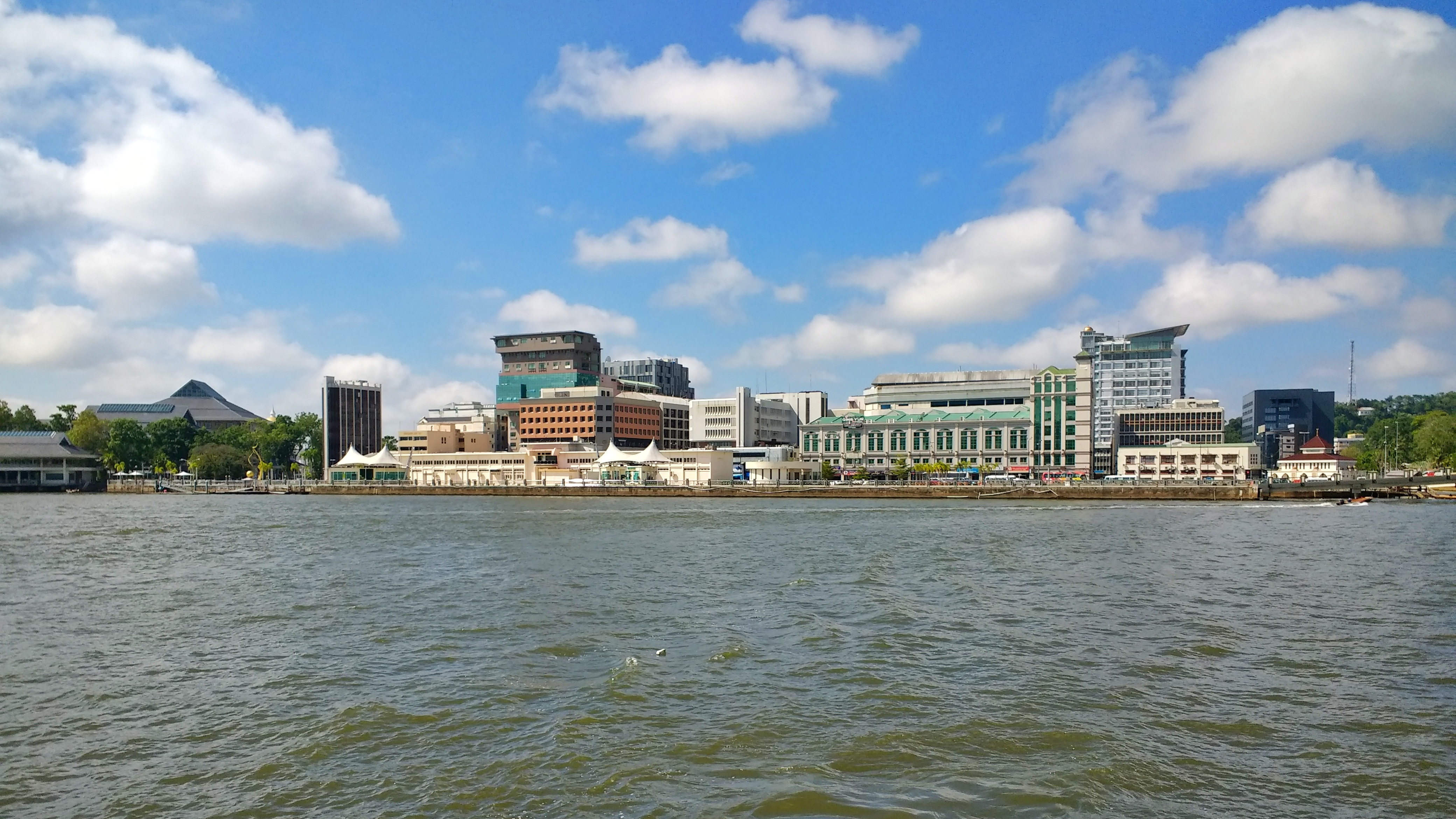 Skyline of downtown Bandar Seri Begawan, as seen from Kampong Ayer.